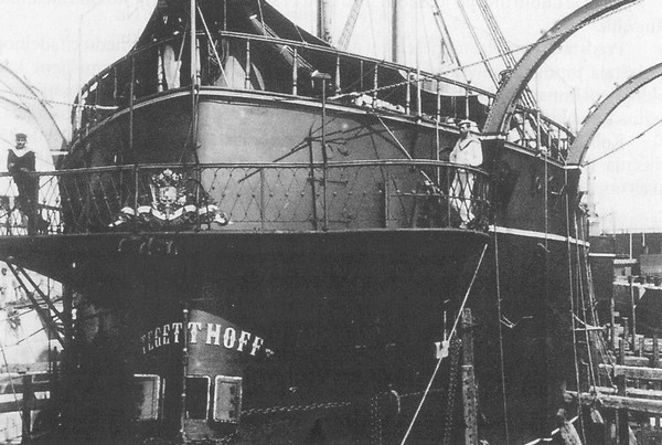 SMS Tegetthoff, later Mars of the Austro-Hungarian Navy